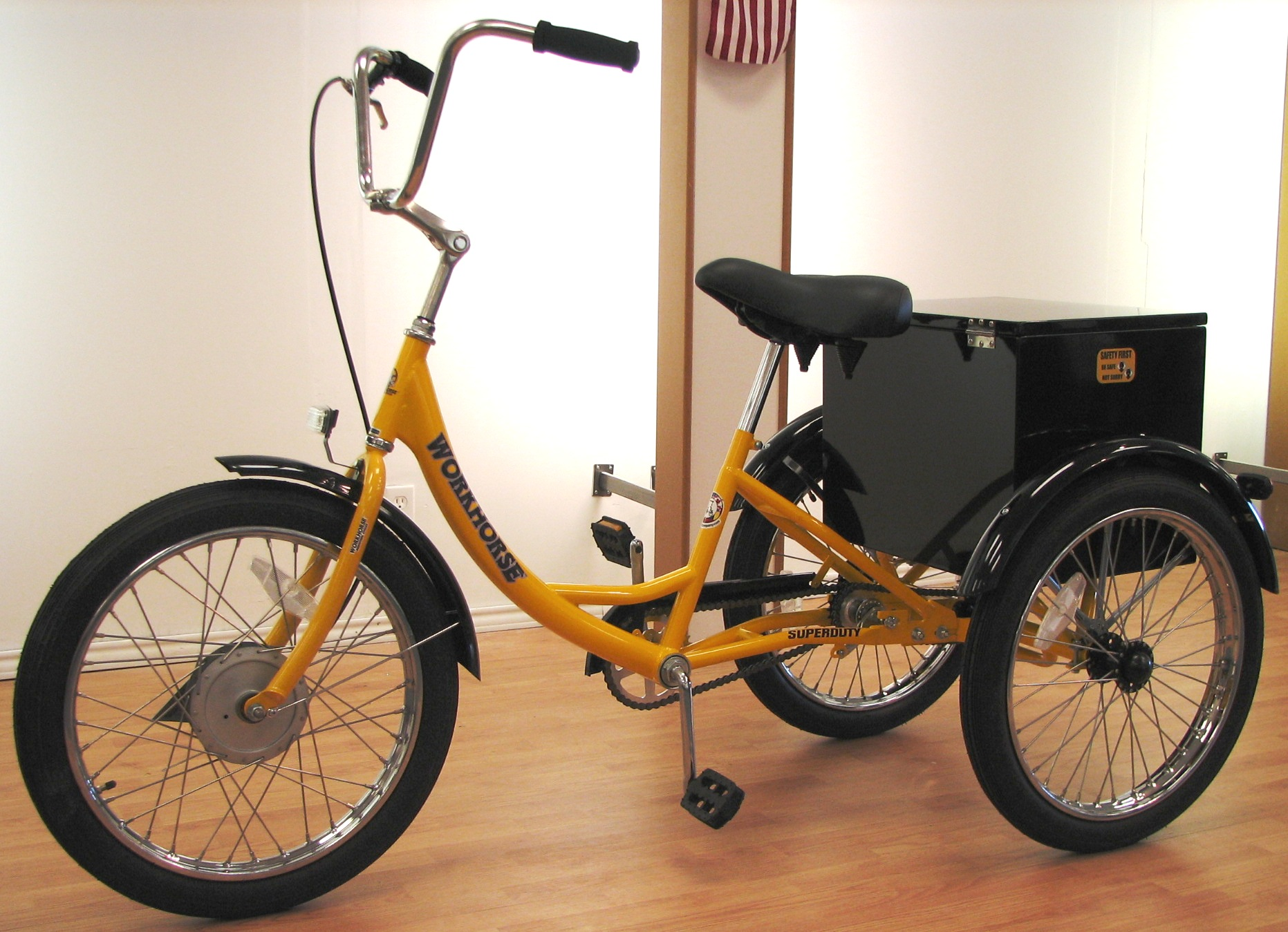 Workhorse Industrial Trike by International Surrey Company